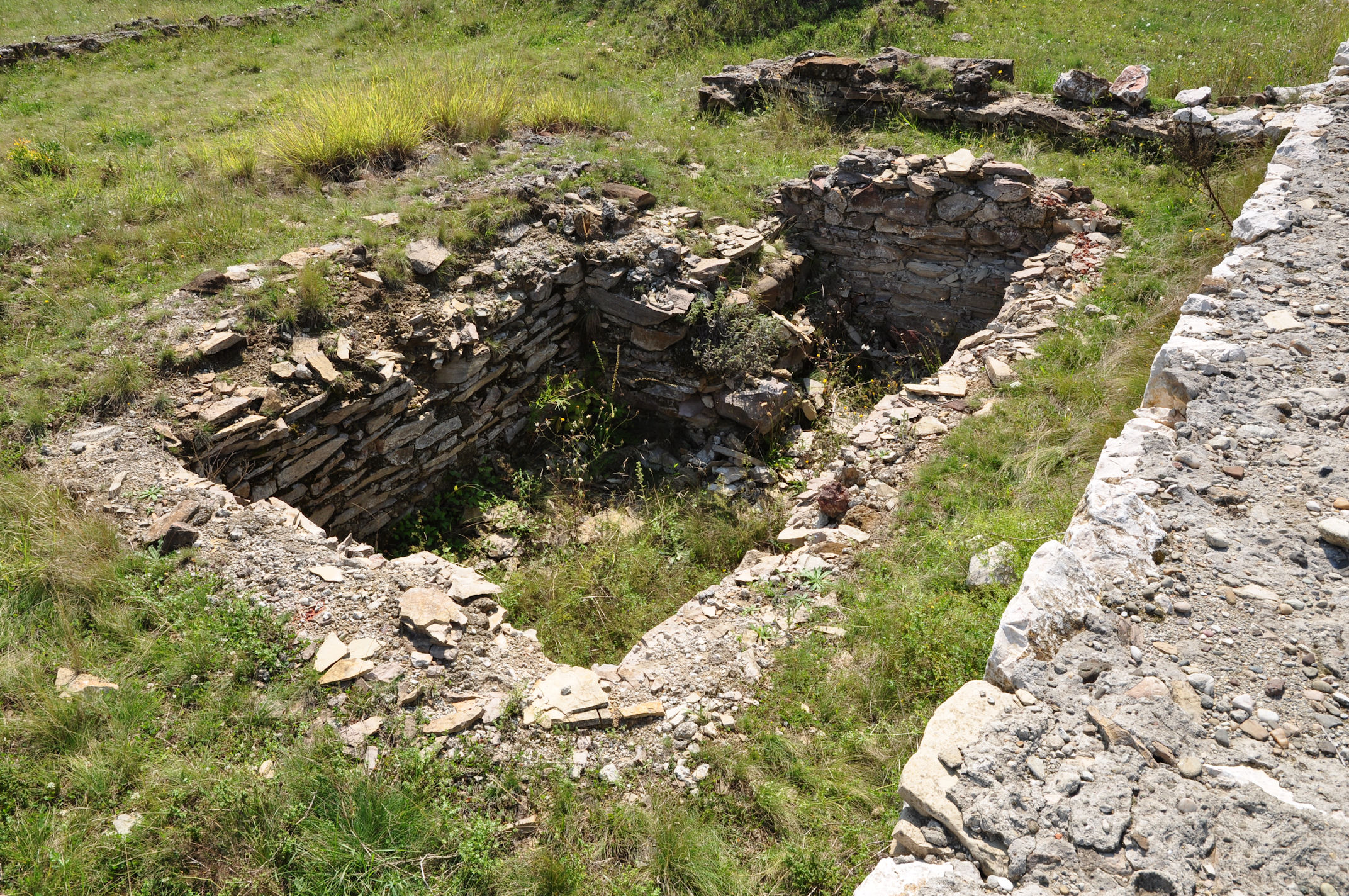 Castra of Cigmău. Cellar for the troop fund in the flag shrine of the Principia.